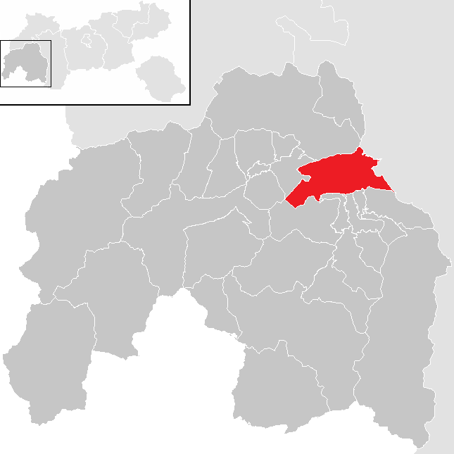 District Landeck